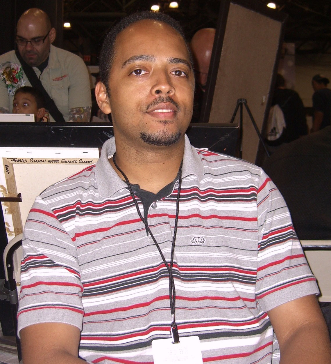 Comic book creator Clayton Henry, at the New York Comic Convention in Manhattan, October 10, 2010. Photo by Luigi Novi. This photo may be used, modified and published for any purpose, only if a easily visible credit to the photographer is placed near the photo in each instance in which it is used. (See licensing information below.) Publication of this photo without this proper attribution constitute copyright infringement. For more information on my photos, you can contact me here.